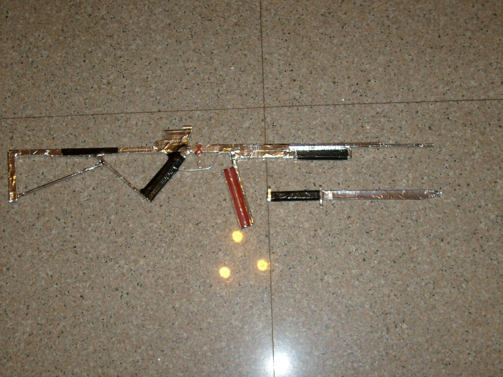 "Assault rifle" rubberband gun made with ice cream sticks, with "bayonet" removed.